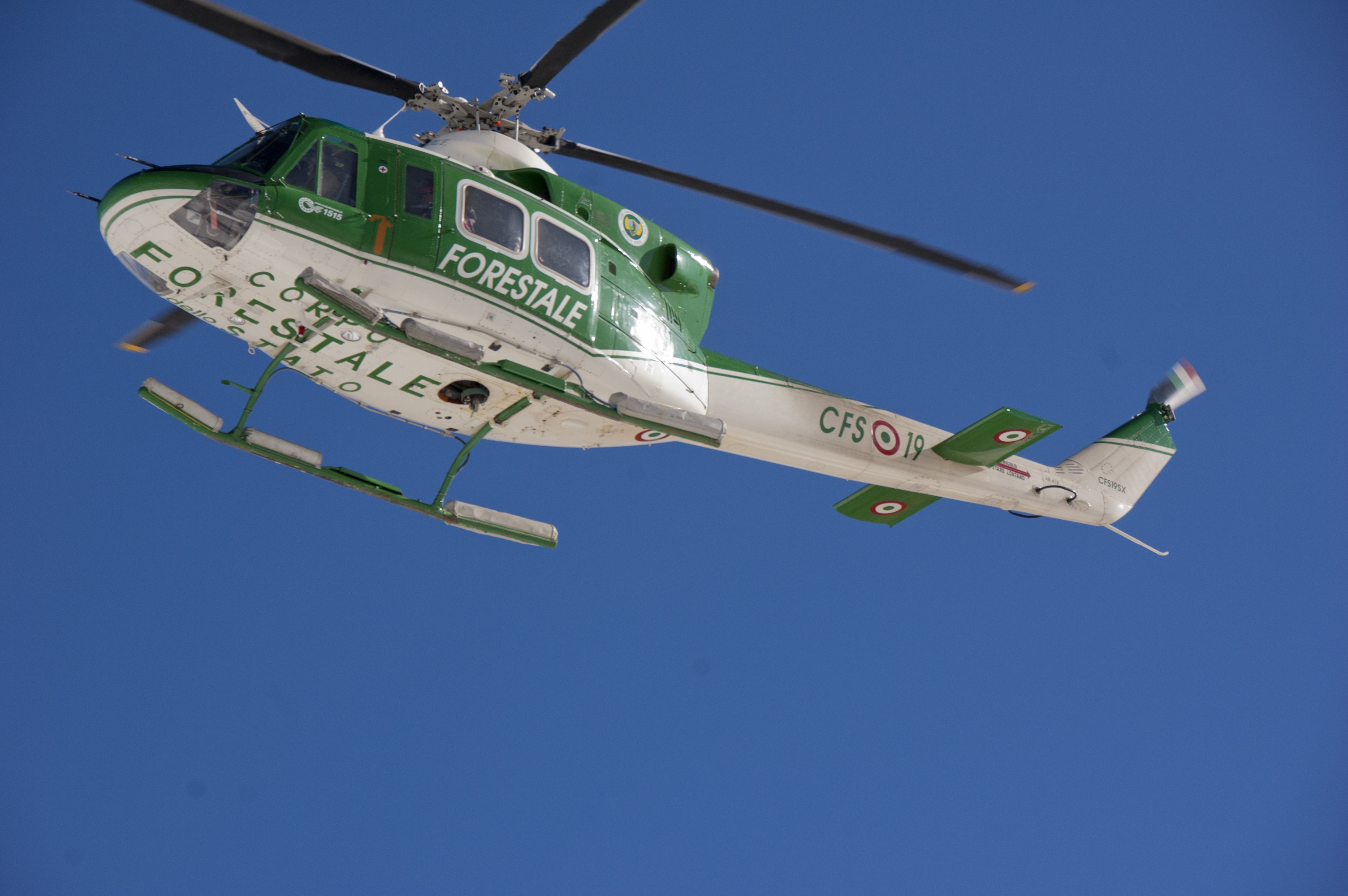 Bell 412 helicopter of italian State Forestry Corps in a mountain rescue operation with italian Corpo Nazionale di Soccorso Alpino e Speleologico at Monte Terminillo (Rieti municipality, Lazio, Italy)